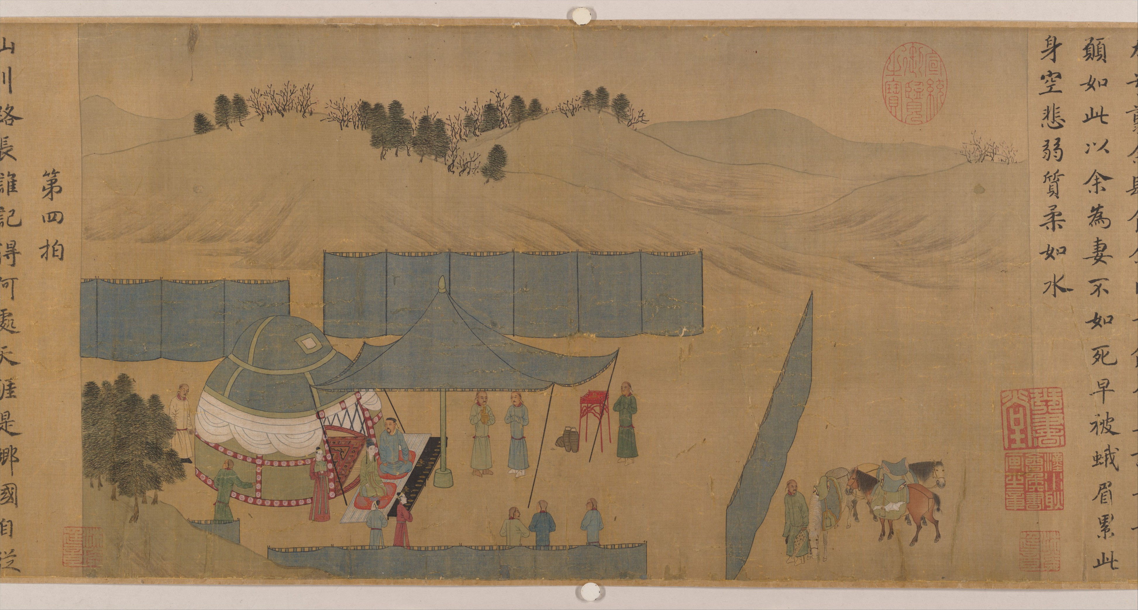 China; Handscroll; Paintings